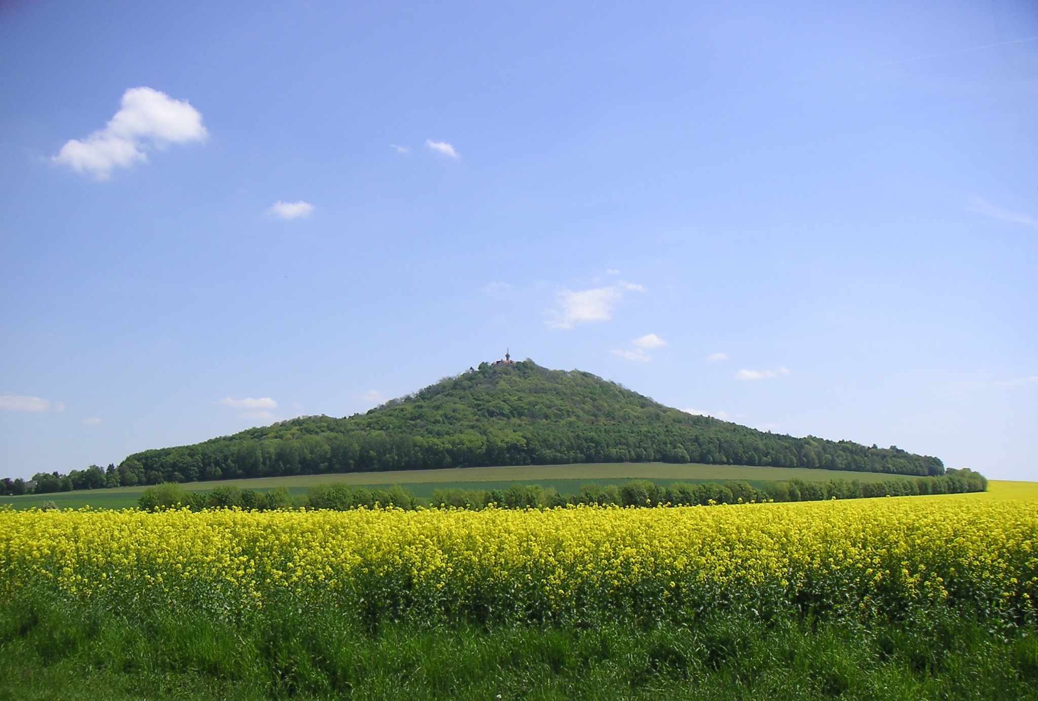 View of the Landeskrone hill near Görlitz from the Northwest. Saxony, Germany Hornjoserbsce: Wid na Sedło pola Zhorjelca ze sewjerozapadneho směra